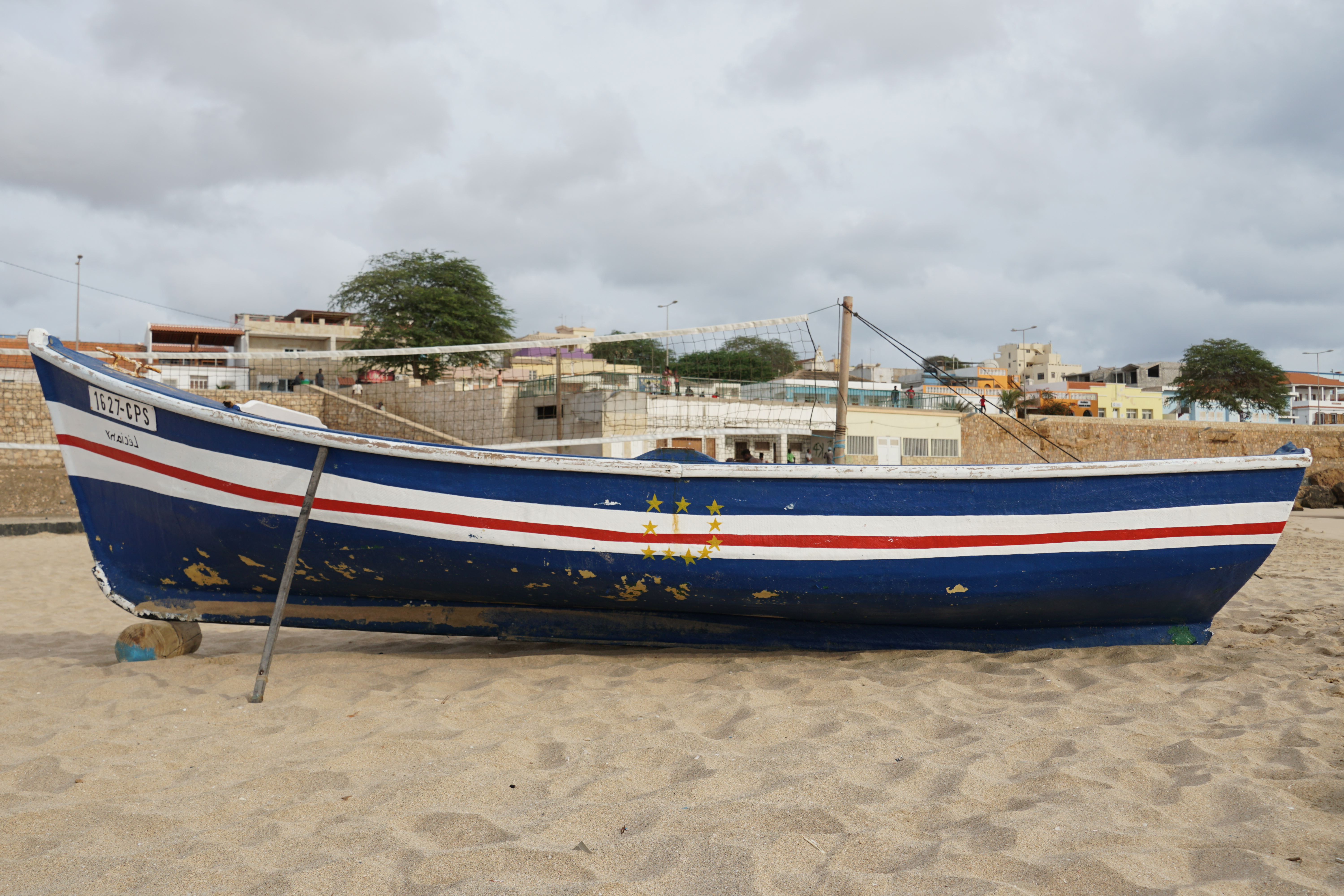 This is an image with the theme "Africa on the Move or Transport" from: Cape Verde